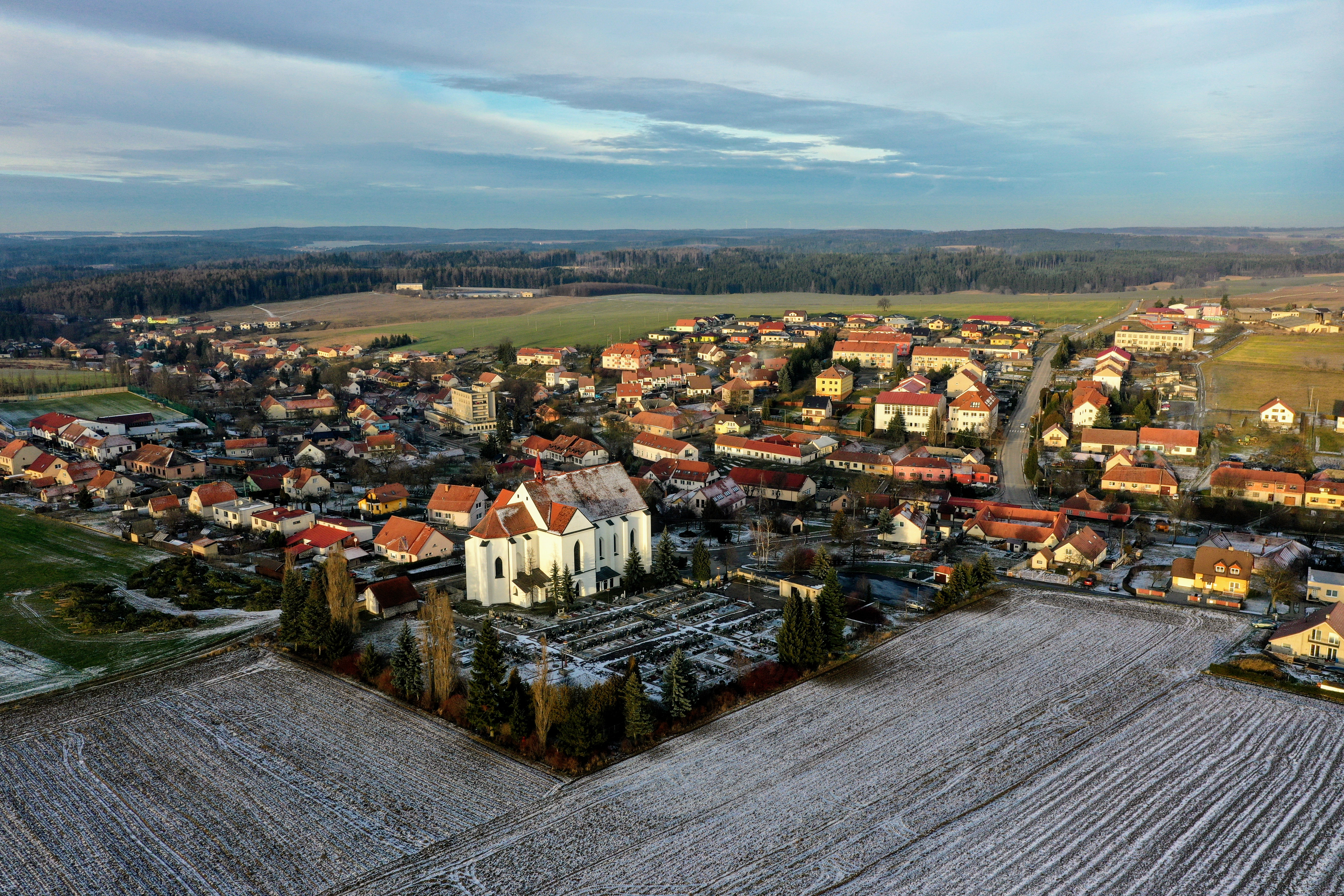 View of Lipovec captured with Drone